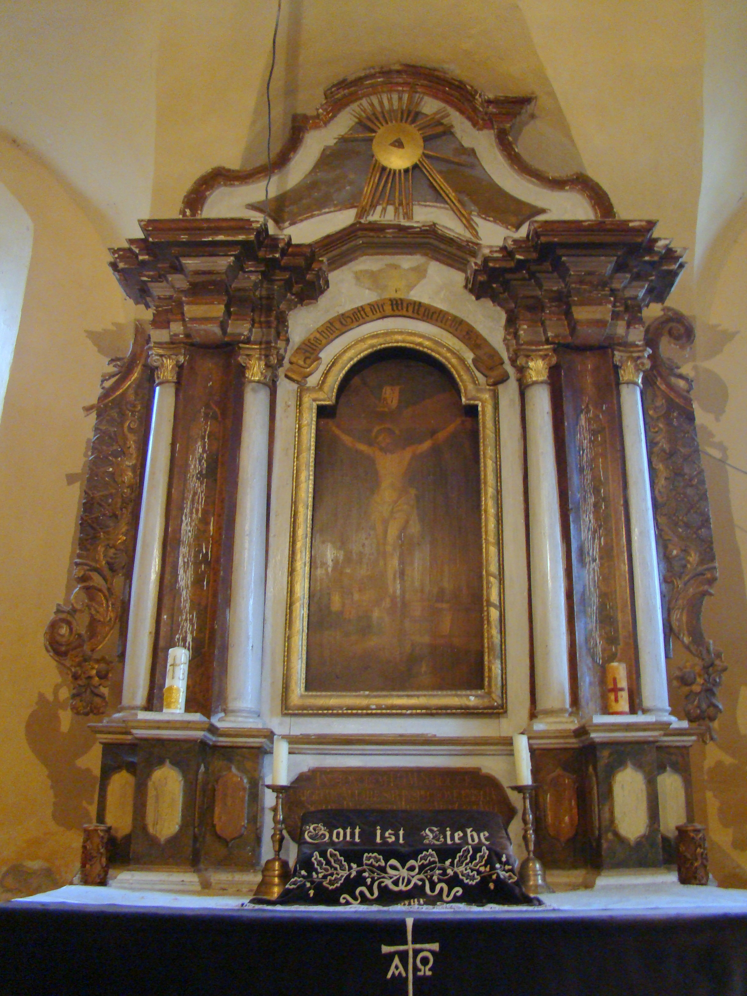 Lutheran church in Seleuș (Zagăr), Mureș county, Romania